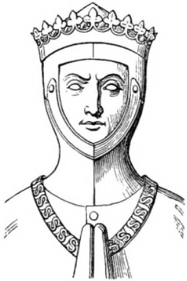 Drawing of effigy, made after Schebbelie's drawing depicted in Gough, Richard, Sepulchral Monuments in Great Britain, vol 2, part 2 (London, 1796), p. 127